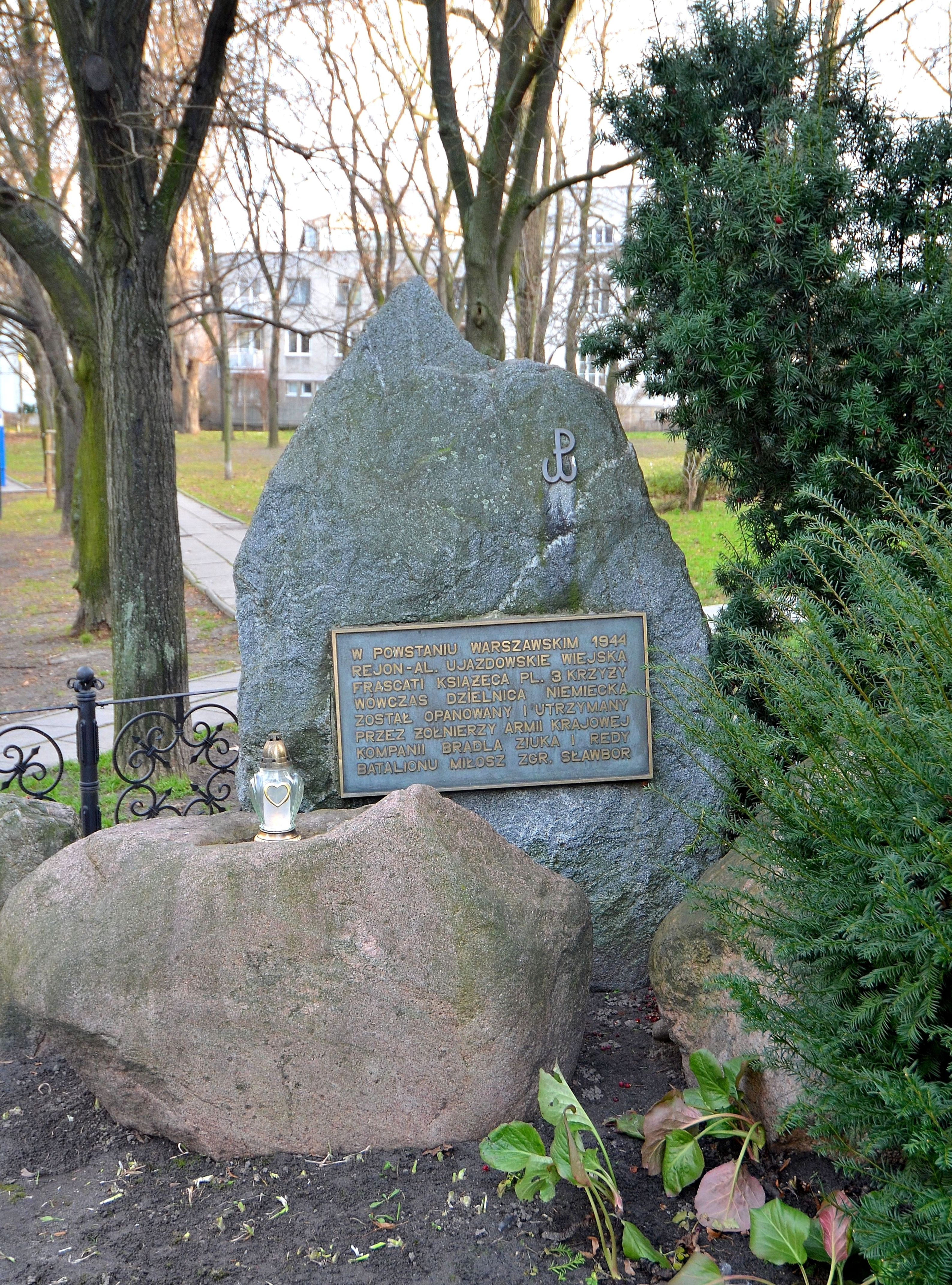 Stone commemorating the soldiers of „Miłosz” Battalion in the Miłosz” Battalion Square in Warsaw, corner of Konopnickiej and Prusa Streets